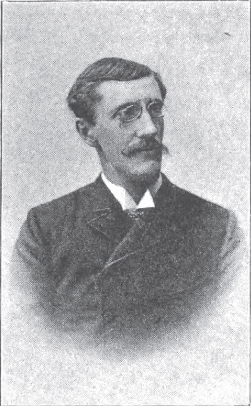 Edvard Fredin (1857-1889) Swedish author, translator and journalist. Picture in Fredins posthumous work Efterlemnade dikter from 1890